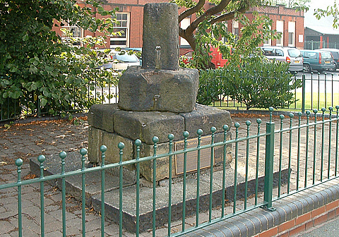 Lady Mabel's Cross